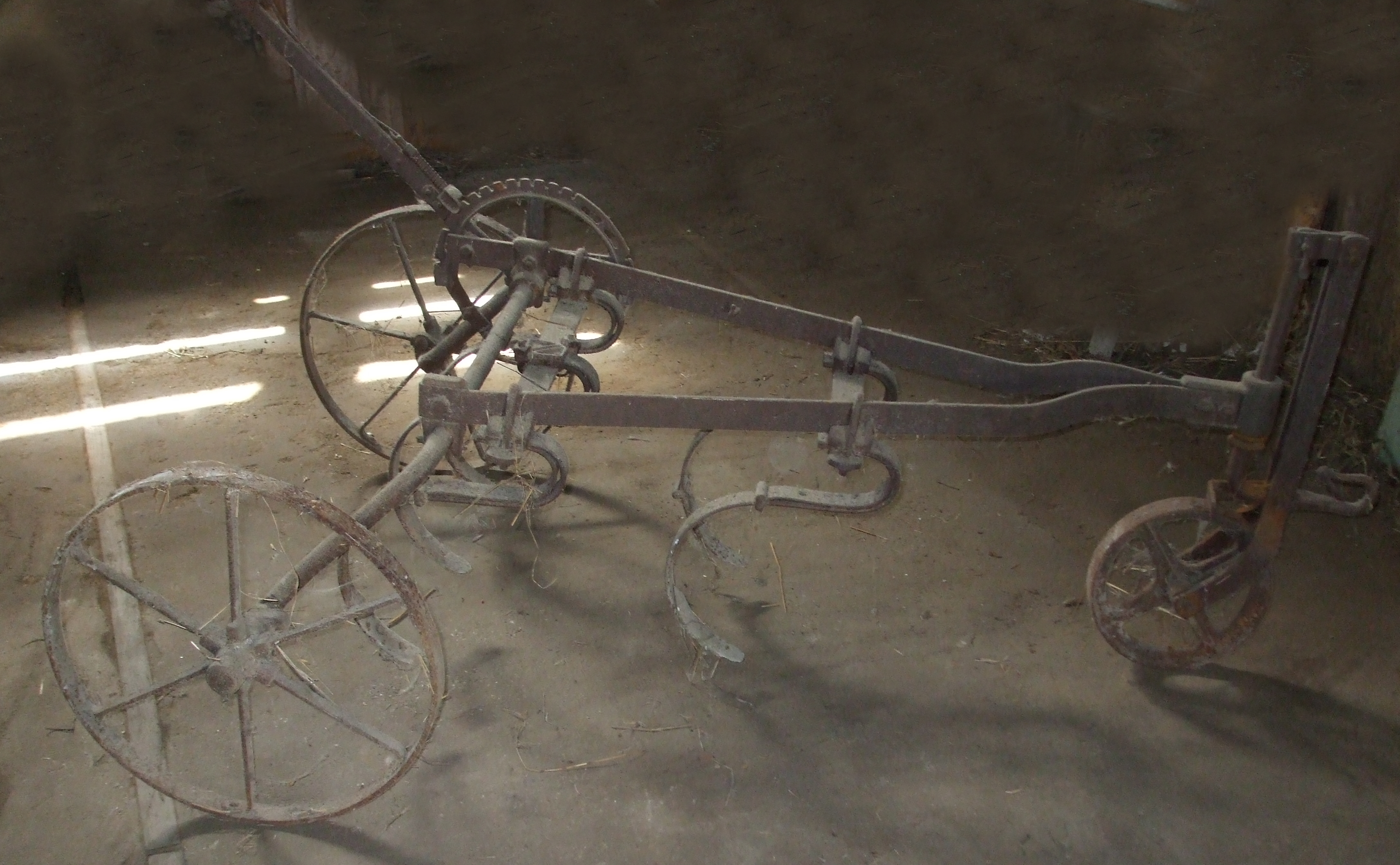 Old cultivator